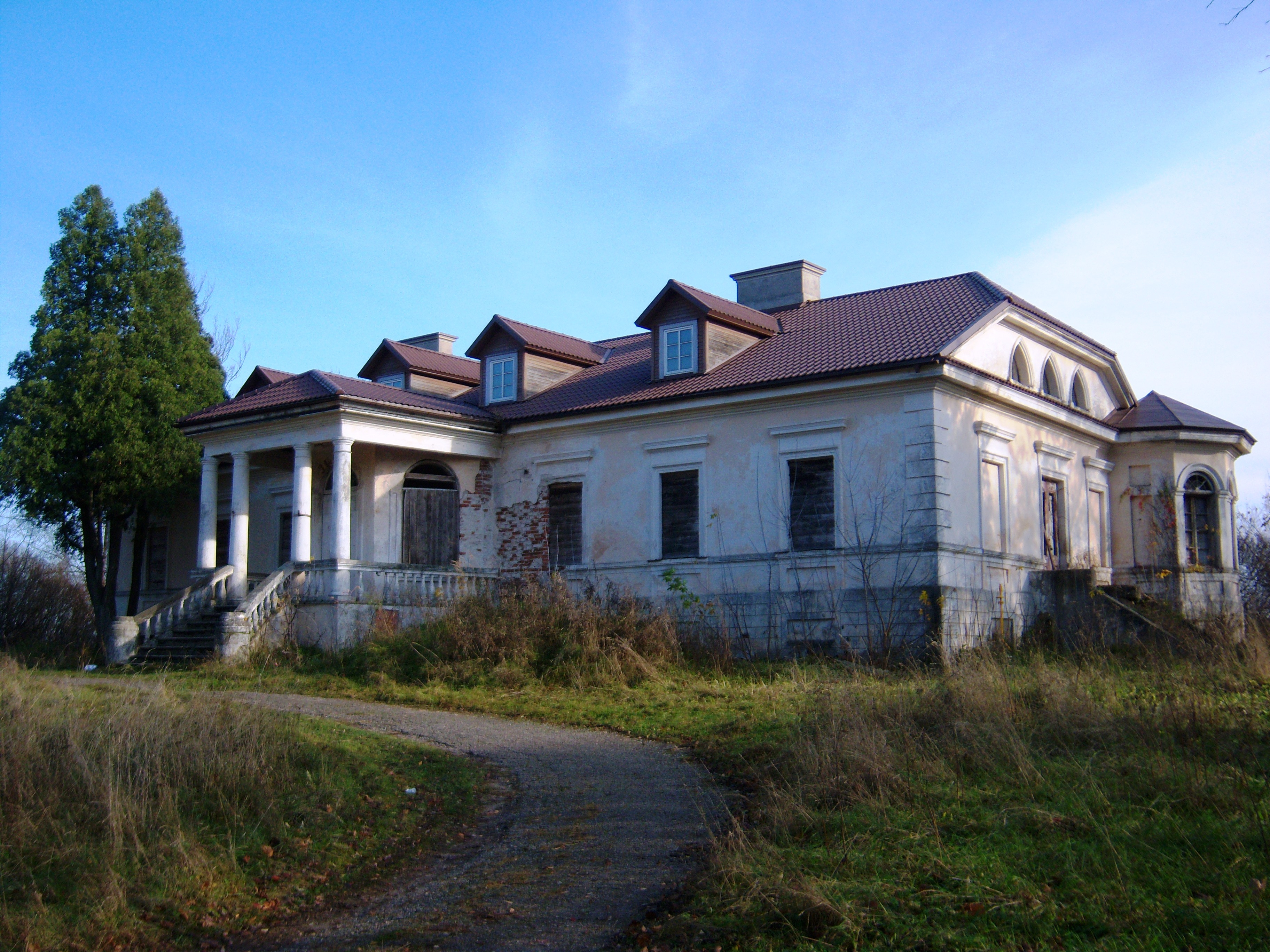 Manor in Leonpolis, Ukmergė District, Lithuania